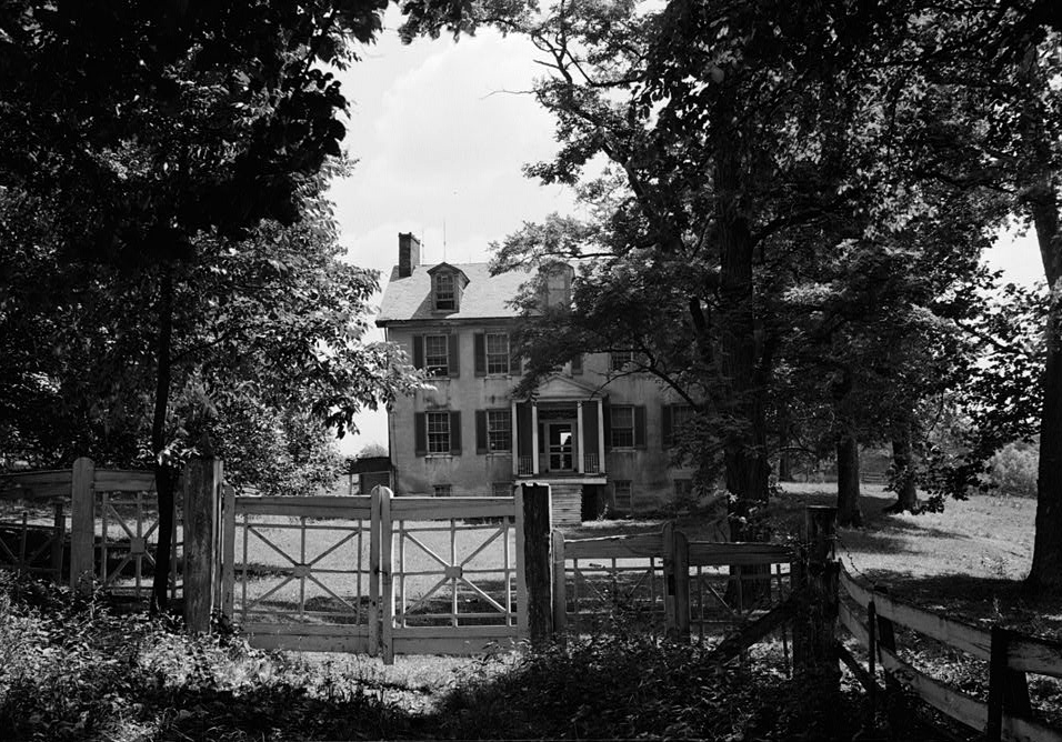 Medical Hall, near Churchviile, Harford County, Maryland, USA